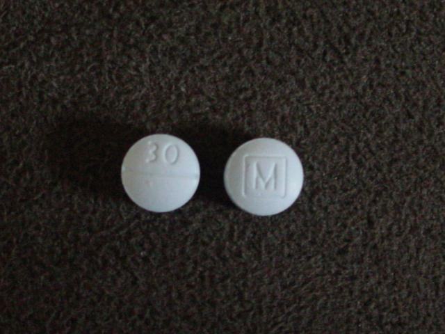 Mallinckrodt brand generic 30mg.